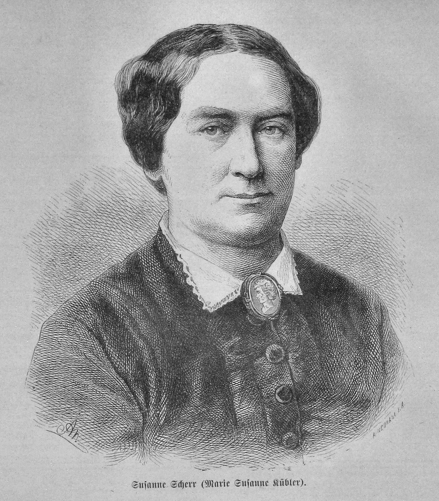 caption: "Susanne Scherr (Marie Susanne Kübler)."